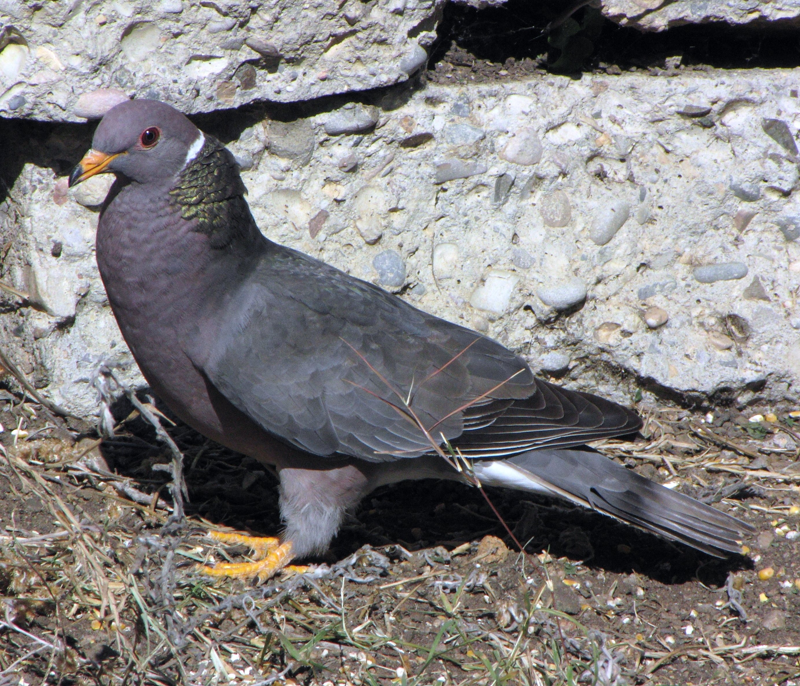 A Band-tailed Pigeon in San Luis Obispo, California, USA.